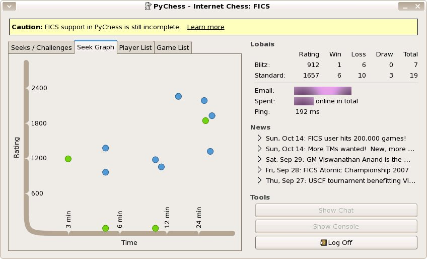 Play chess with Pychess in FICS.